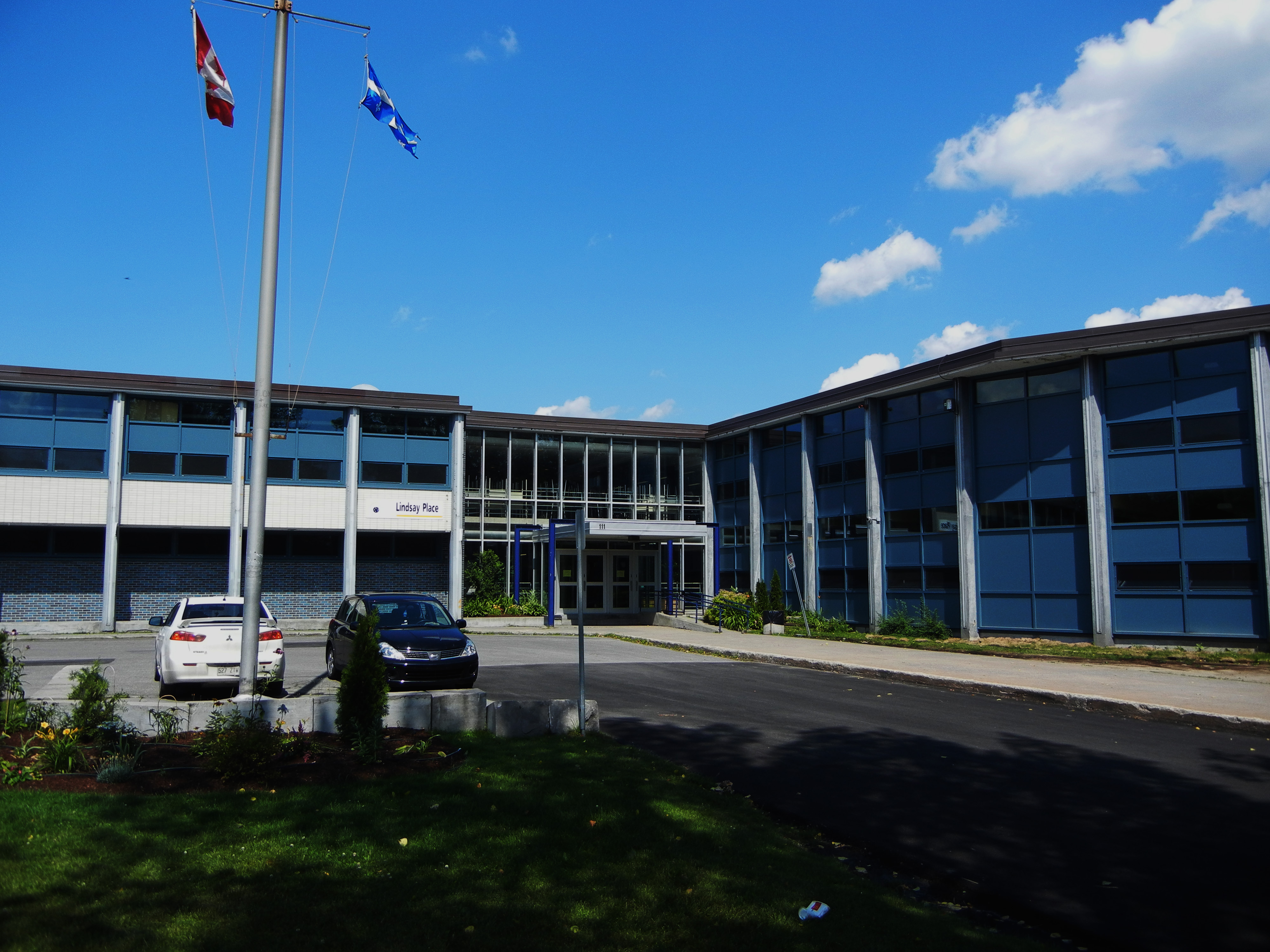 A photo of the front entrance to Lindsay Place High School in Pointe-Claire, Quebec, Canada.